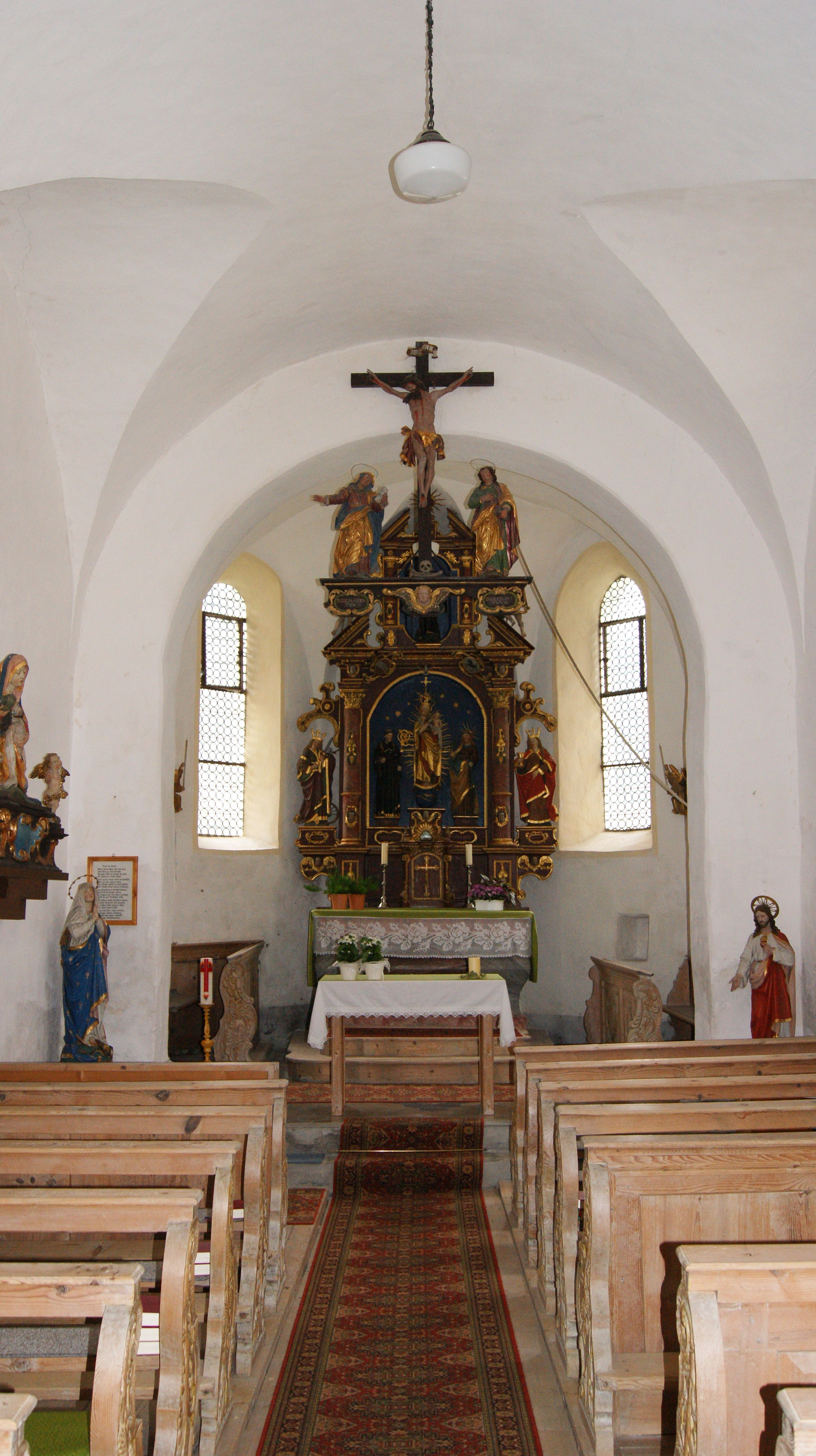 Church of St. Leonhard in St. Leonhard between Bing and Oberradin, Bludenz, Vorarlberg, Austria - View of the altar.